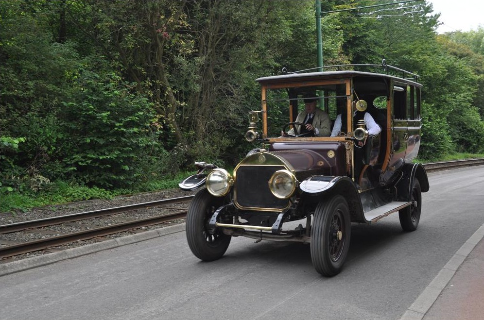 Beamish Museum, County Durham, England. This is the museum's replica of an Armstrong-Whitworth limousine. Behind it is a section of the tramway.